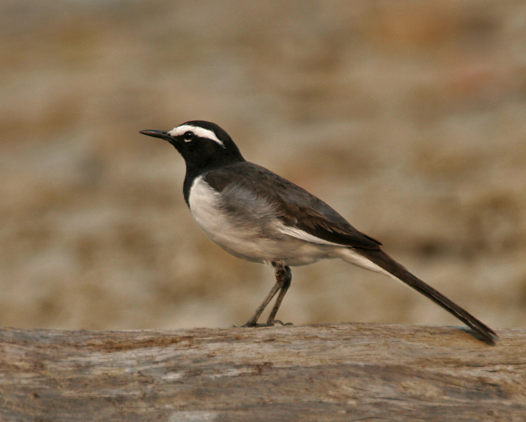 White-browed Wagtail Motacilla maderaspatensis at Jayanti in Buxa Tiger Reserve in Jalpaiguri district of West Bengal, India.